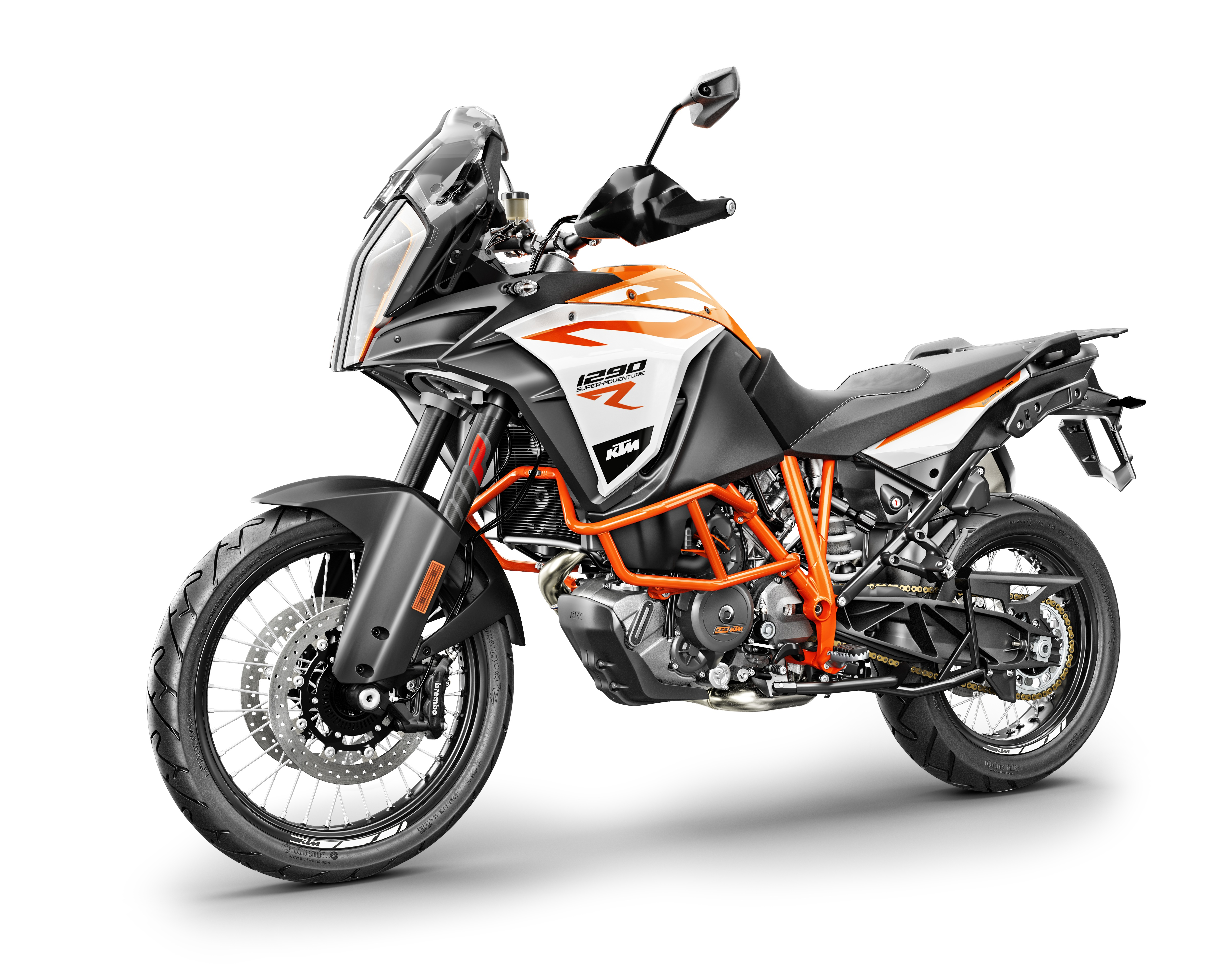 KTM 1290 Super Adventure R